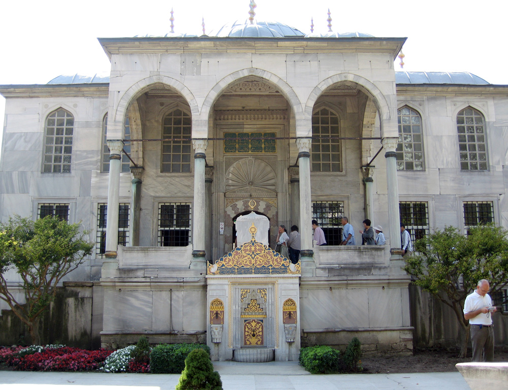 Front Side Library Sultan Ahmet III